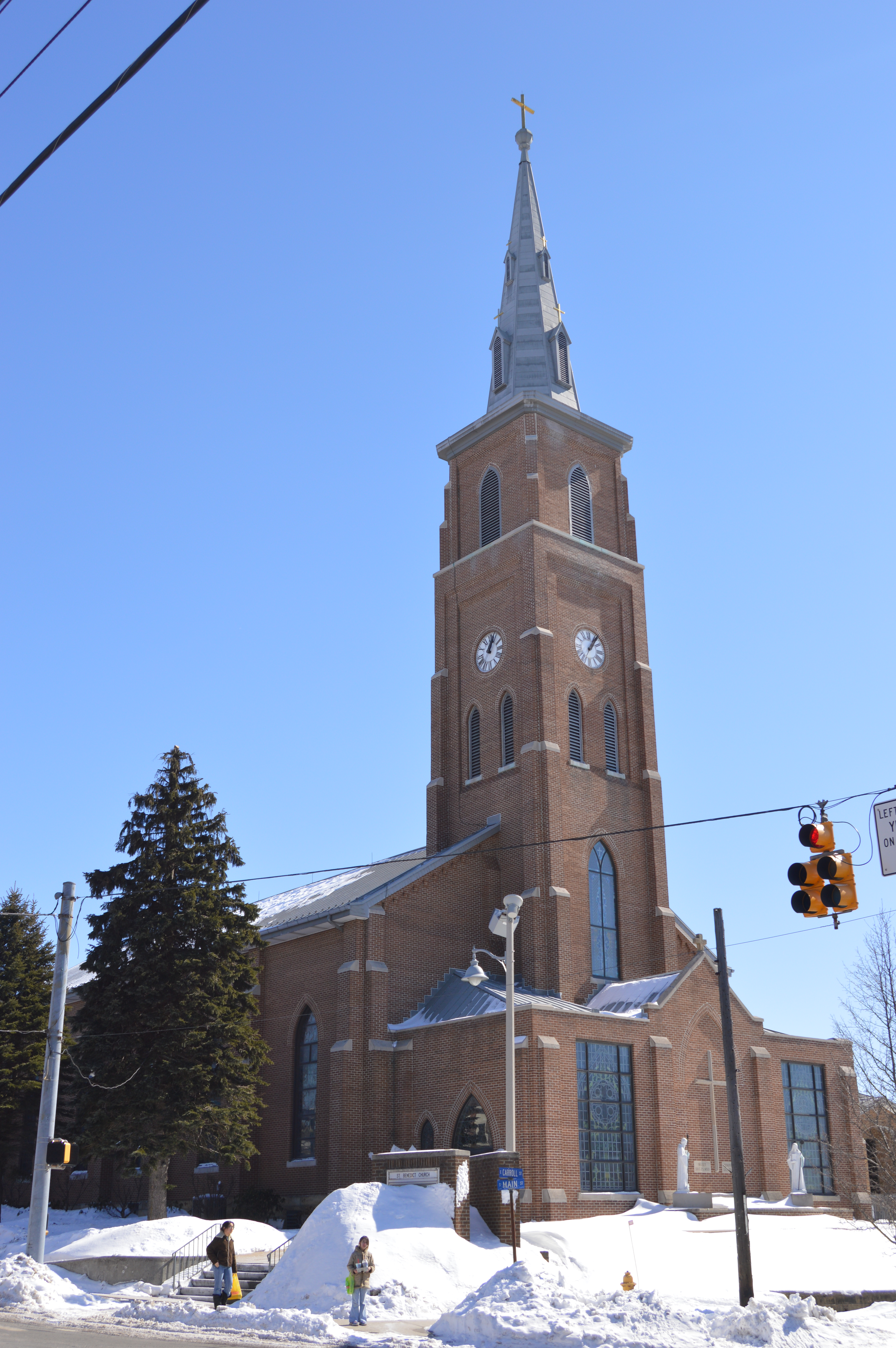 Front and northern side of St. Benedict's Catholic Church, located on the southeastern corner of the junction of Main (U.S. Route 219) and Carroll Streets in Carrolltown, Pennsylvania, United States. Home to the oldest Benedictine parish in the United States, it was built in 1872.